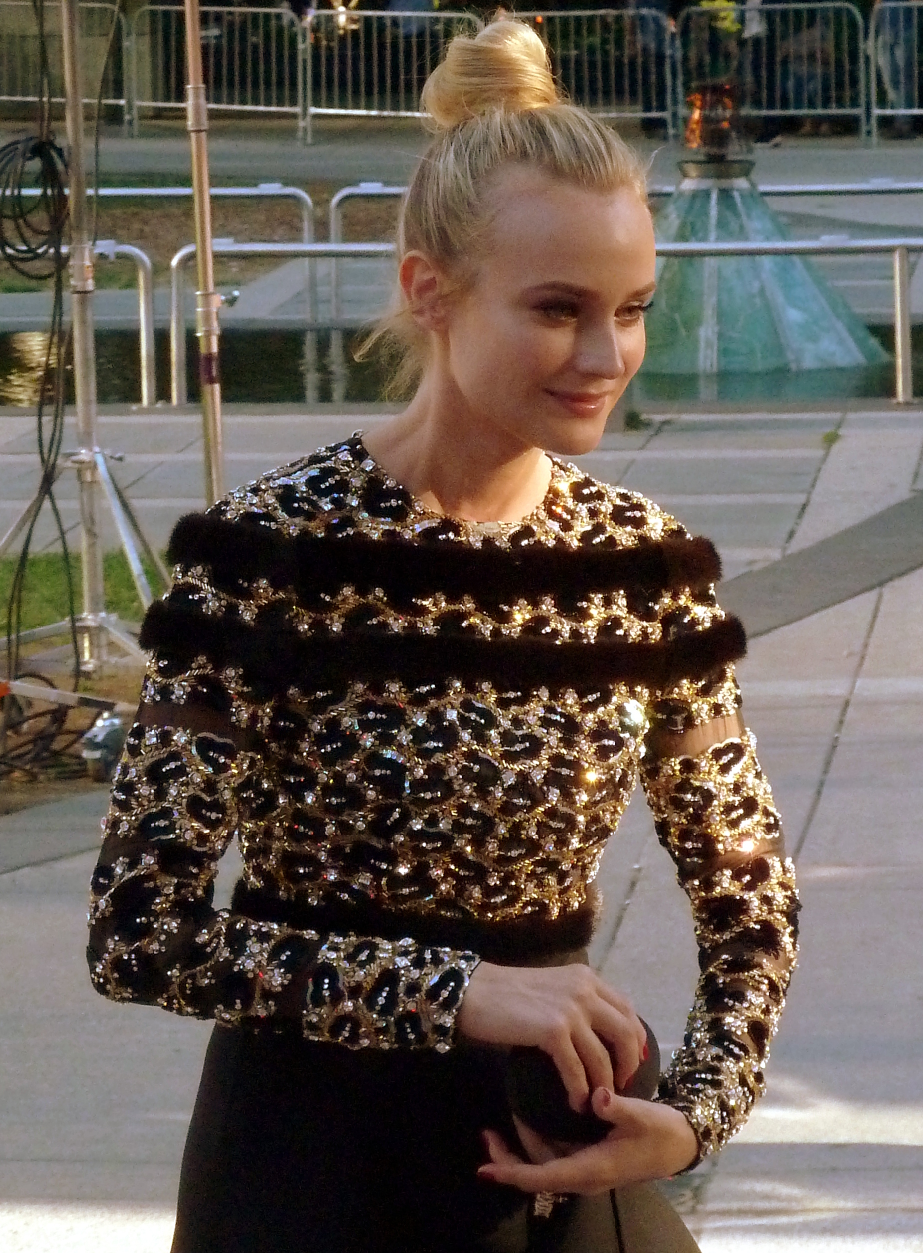 Diane Kruger at the premiere of Inescapable, in the Toronto Film Festival 2012.